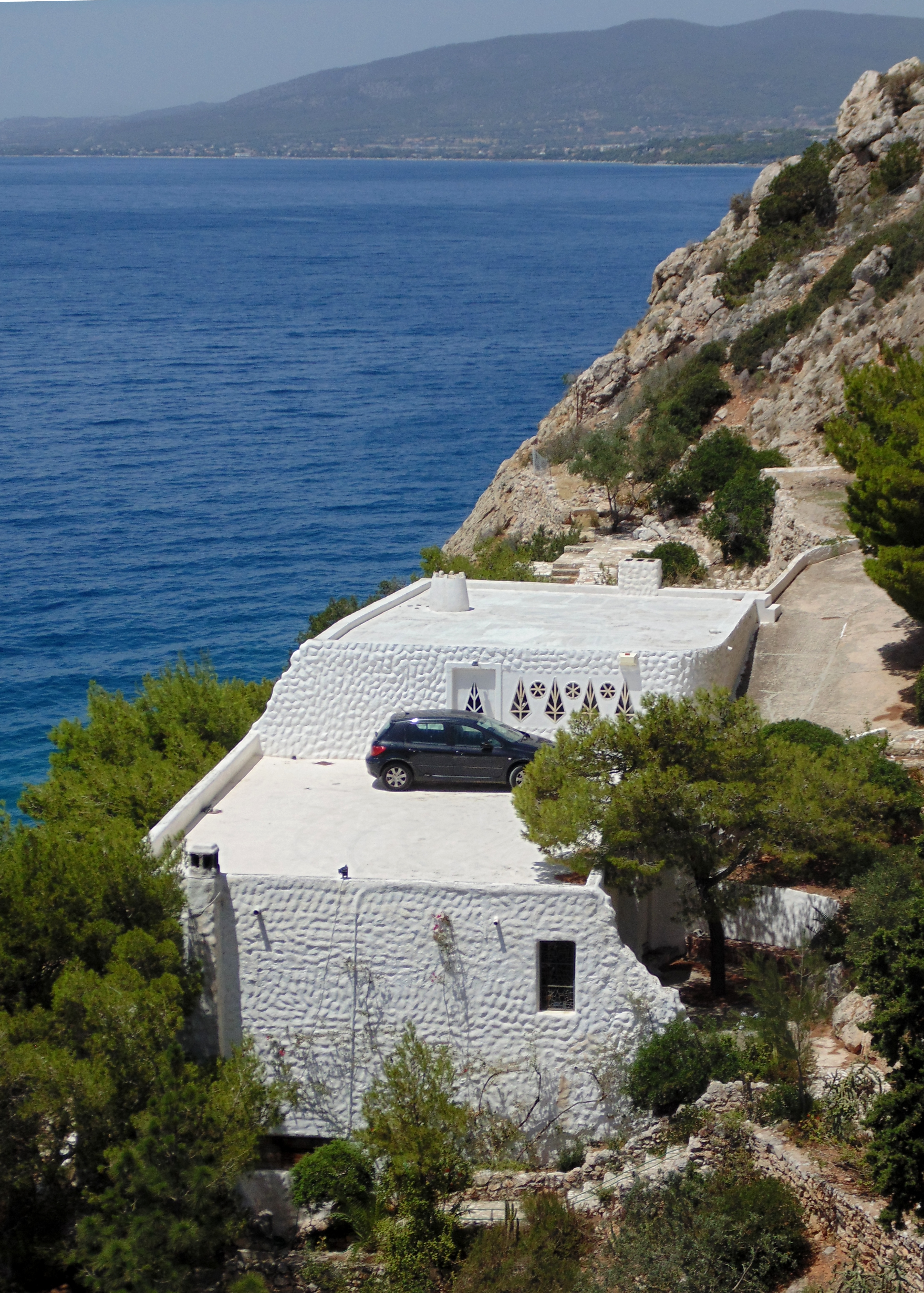 Skironio Museum